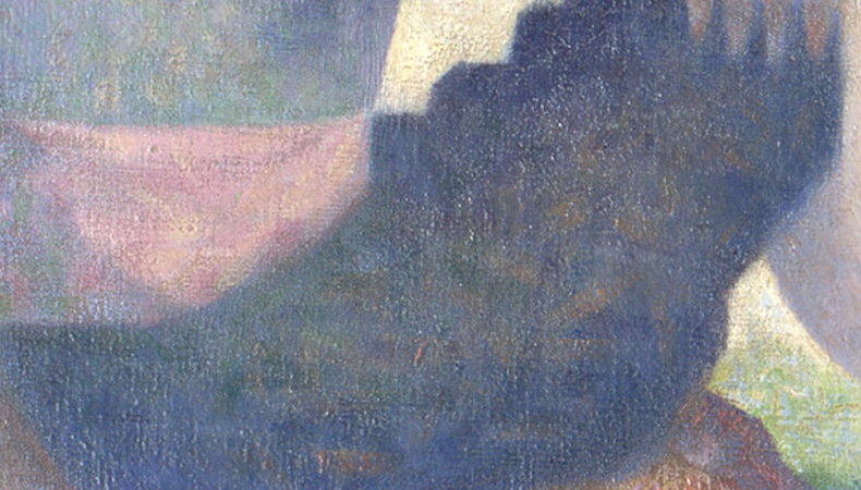 Figure seated on river bank, centre left.